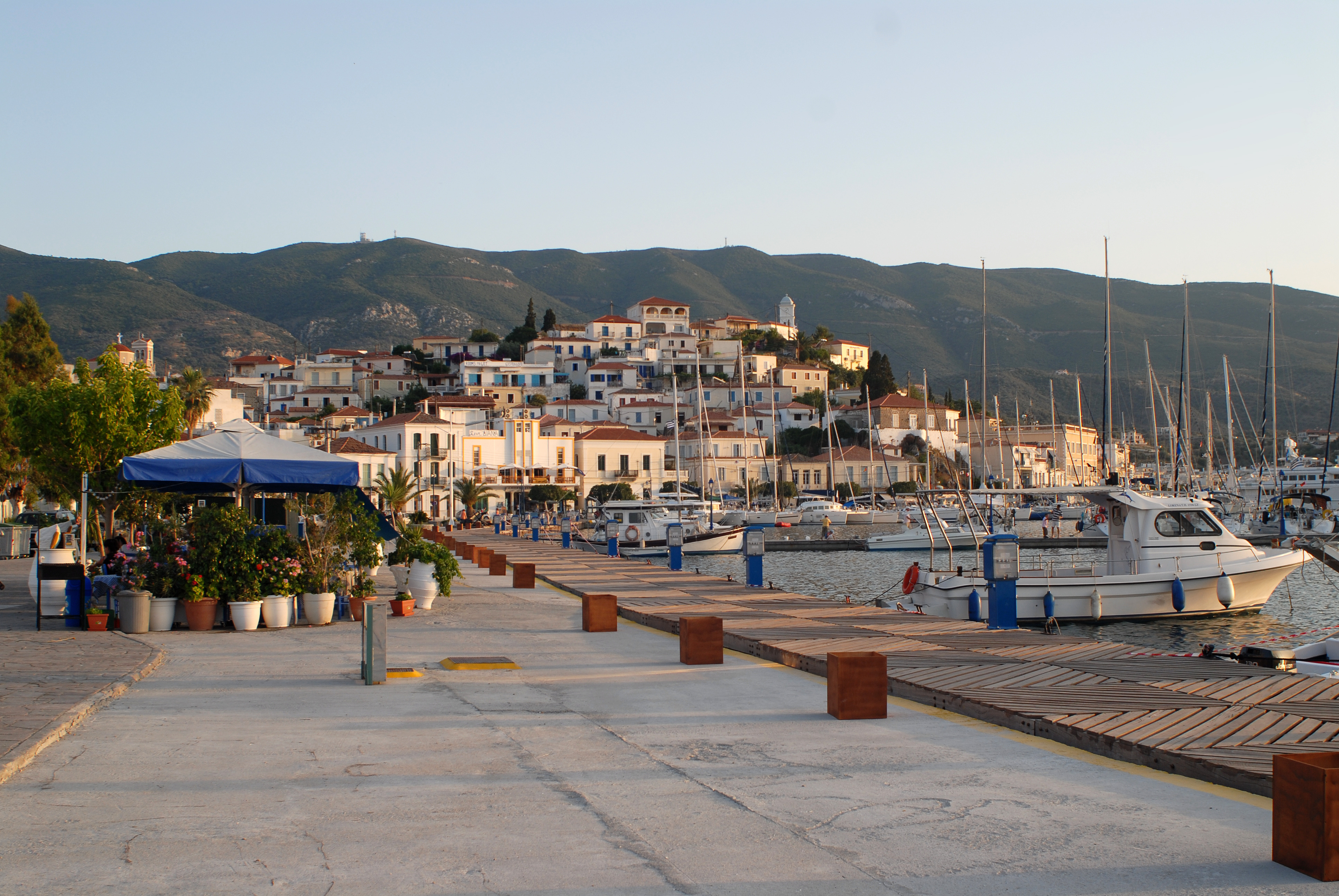 Greece, harbor of island Poros and Old Town